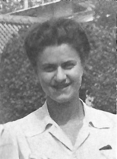 Mila Racine. Jewish Army (AJ) and Zionist Youth Movement (MJS) member.